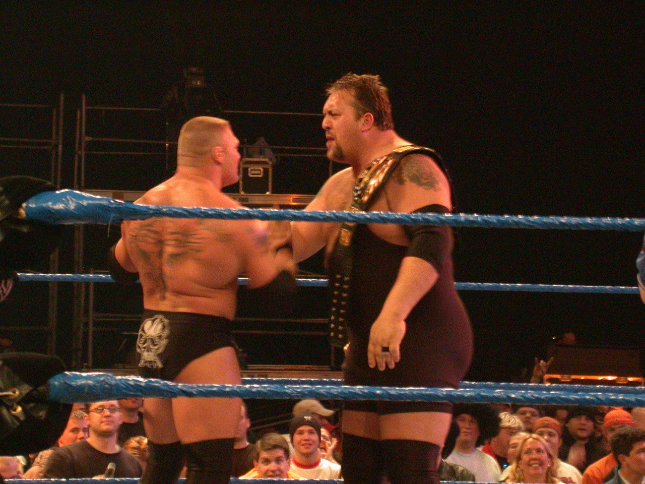 Smackdown taping in Tacoma, WA, February 10, 2004.